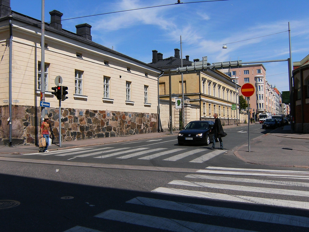 Lönnrotinkatu, Helsinki, Finland